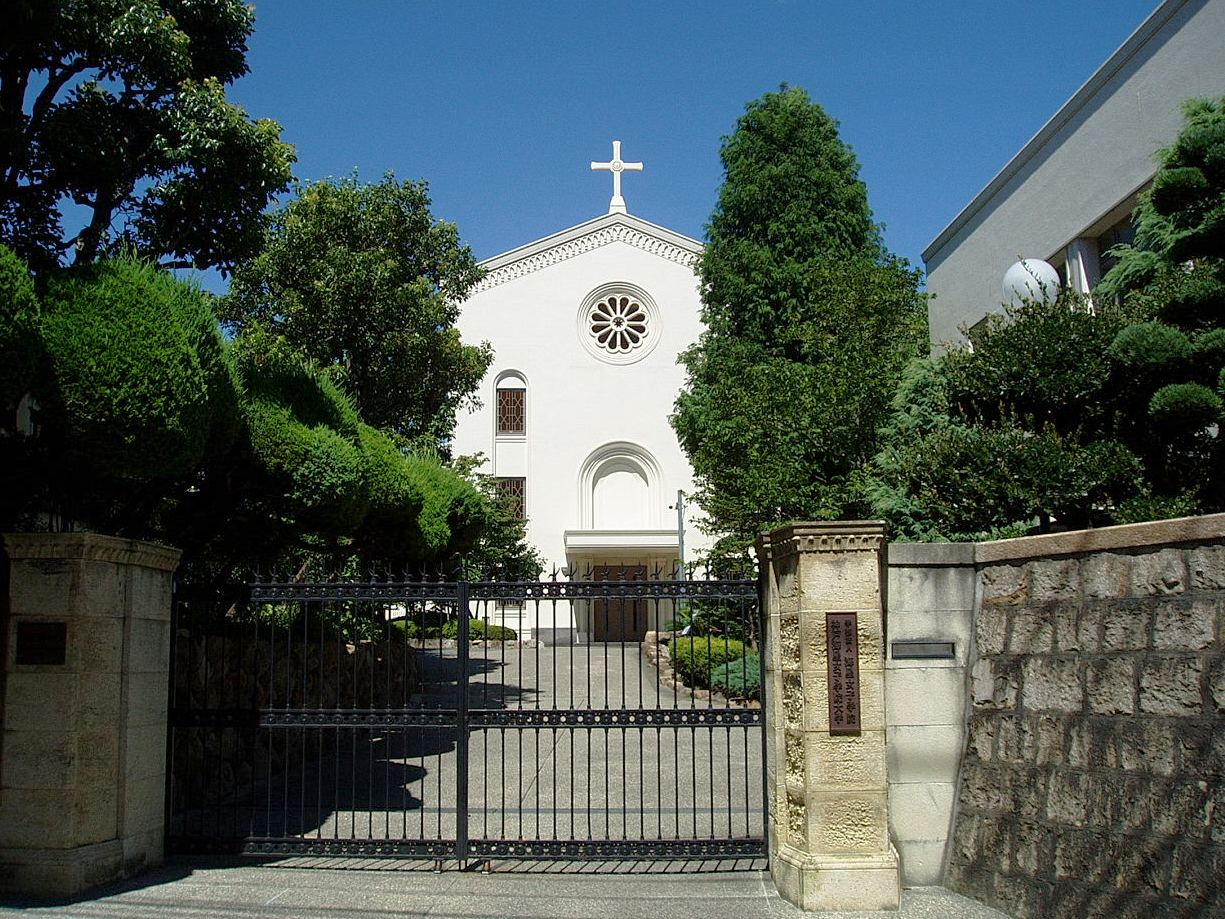 Main entrance and the chapel of Kobe Kaisei College located in Nada-ku, Kobe, Hyogo, Japan.